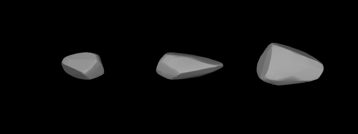 A three-dimensional model of 998 Bodea that was computed using light curve inversion techniques.